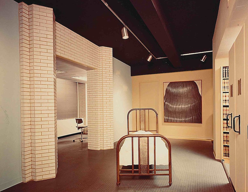 Interior of law office designed by Susana Torre, 1977 License on this file: License on duplicate file